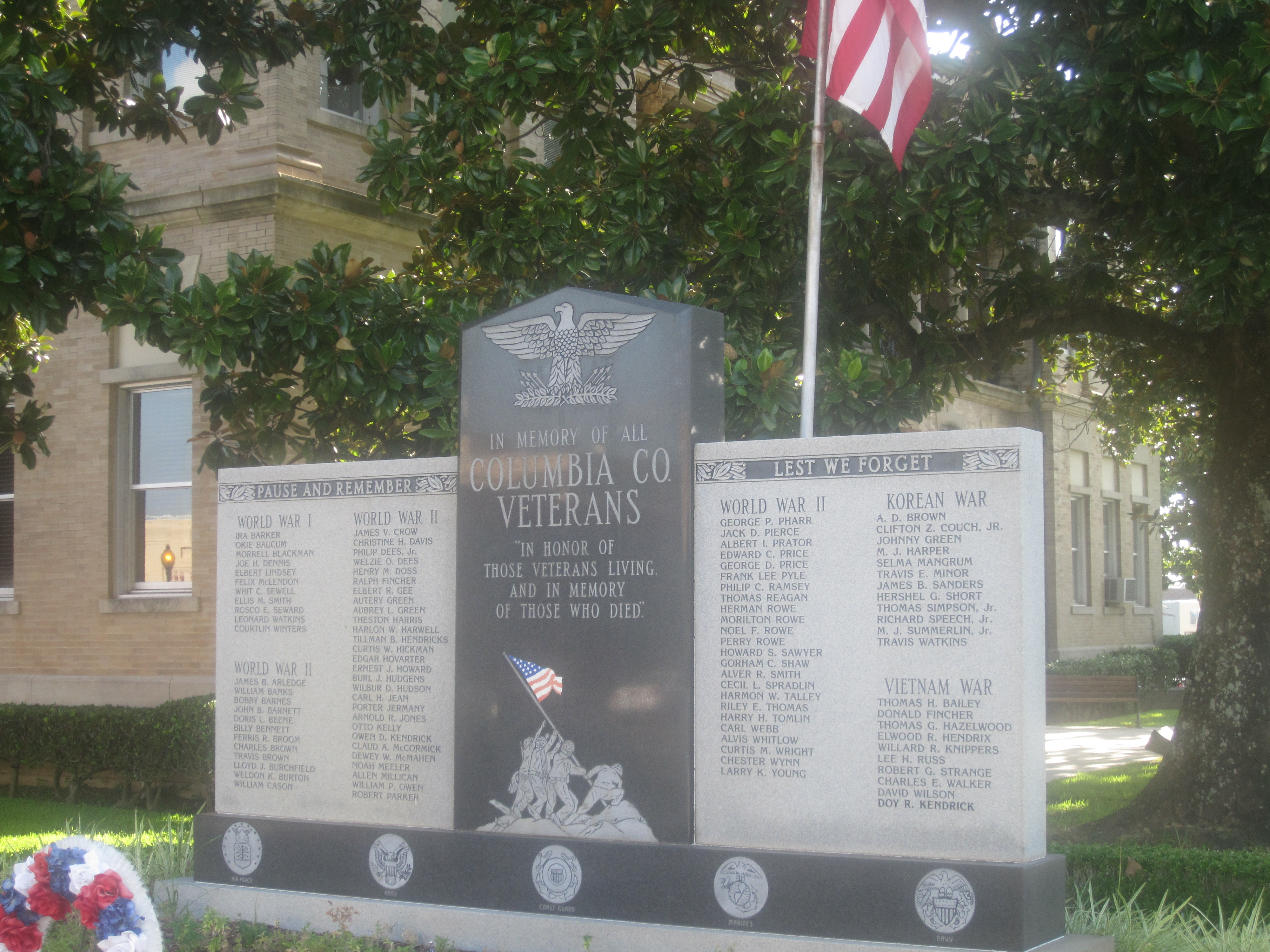 Columbia County, AR, Veterans Monument